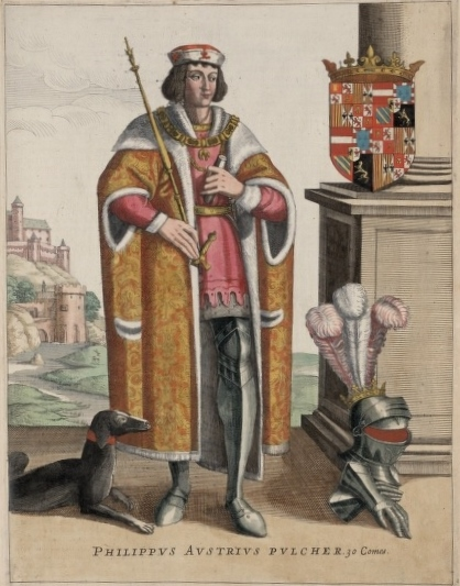 Filips de Schone - Afbeelding uit Flandria Illustrata (1641)